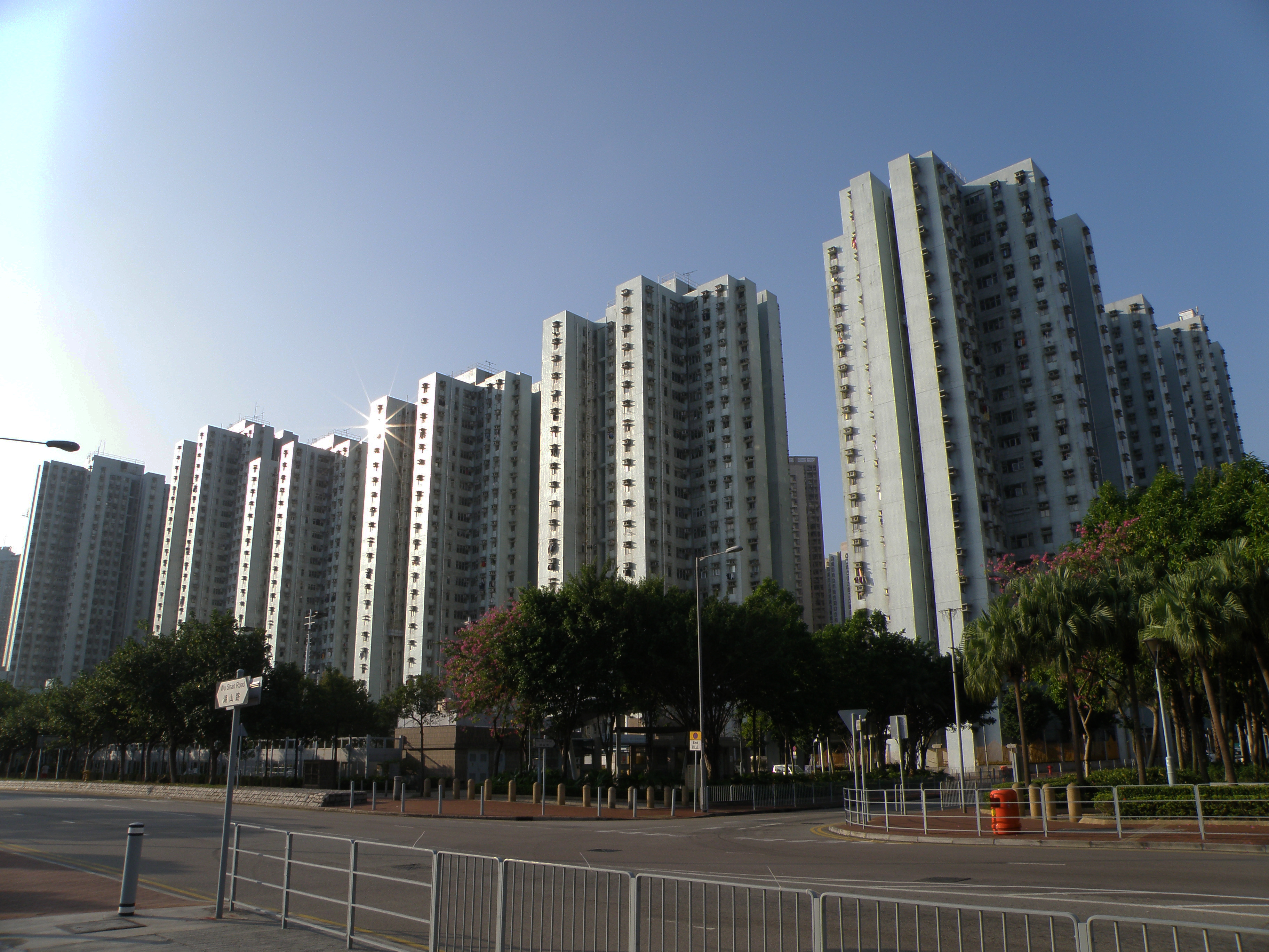 Yuet Wu Villa in Tuen Mun, Hong Kong.